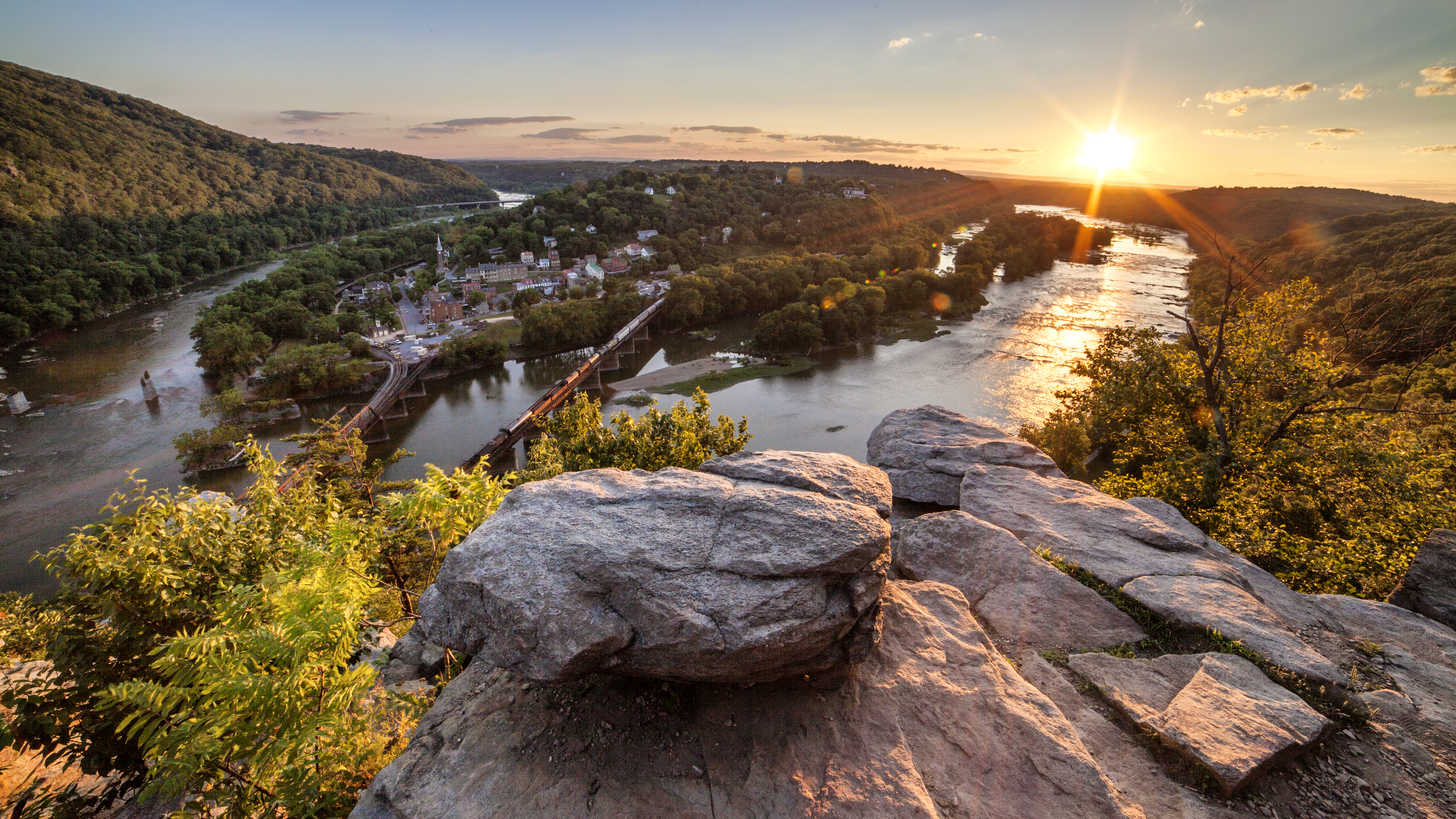 NPS Photo / Volunteer Photographer Buddy Secor